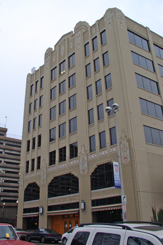 Picture of Spokane's City Hall.